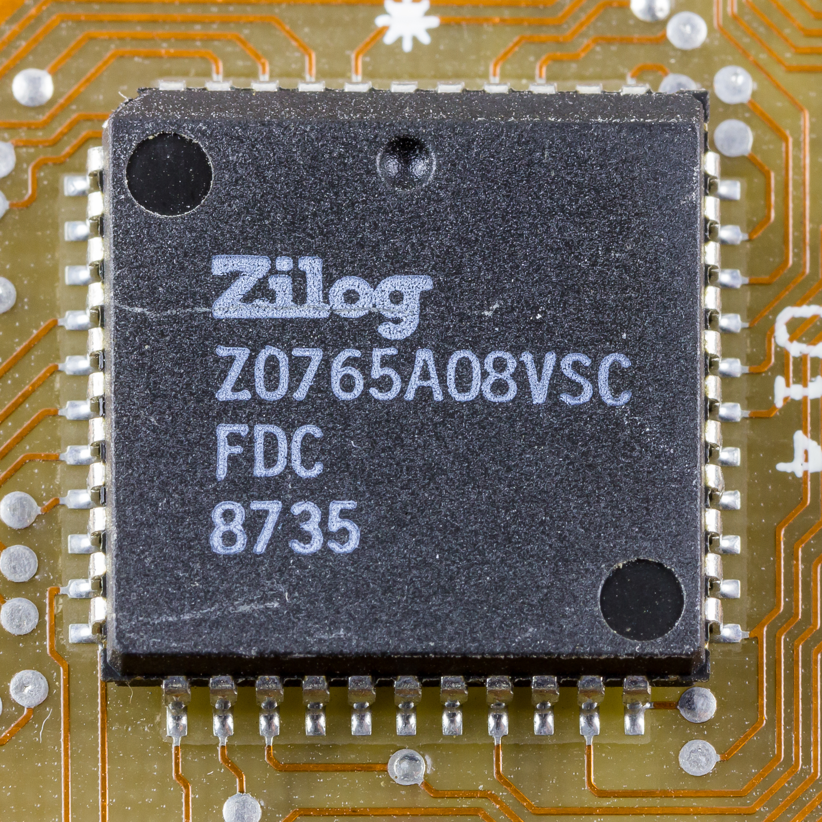 Compaq 000521-001 - Zilog Z0765A08VSC - Floppy Disk Controller. Package: 44 Pin PLCC